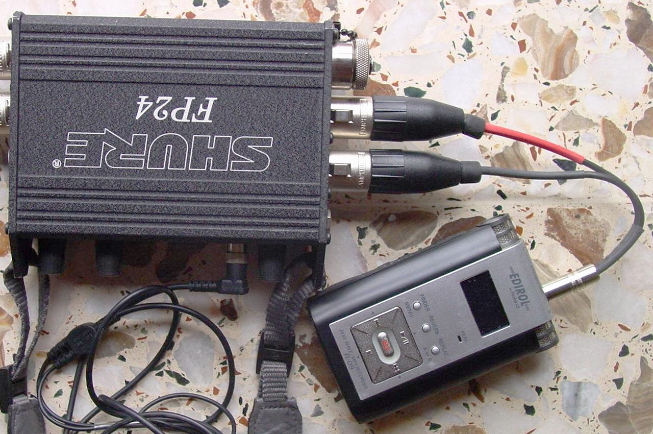 Shure FP24 preamp connected to an Edirol R-09 recorder through the XLR-out using a Y-cable